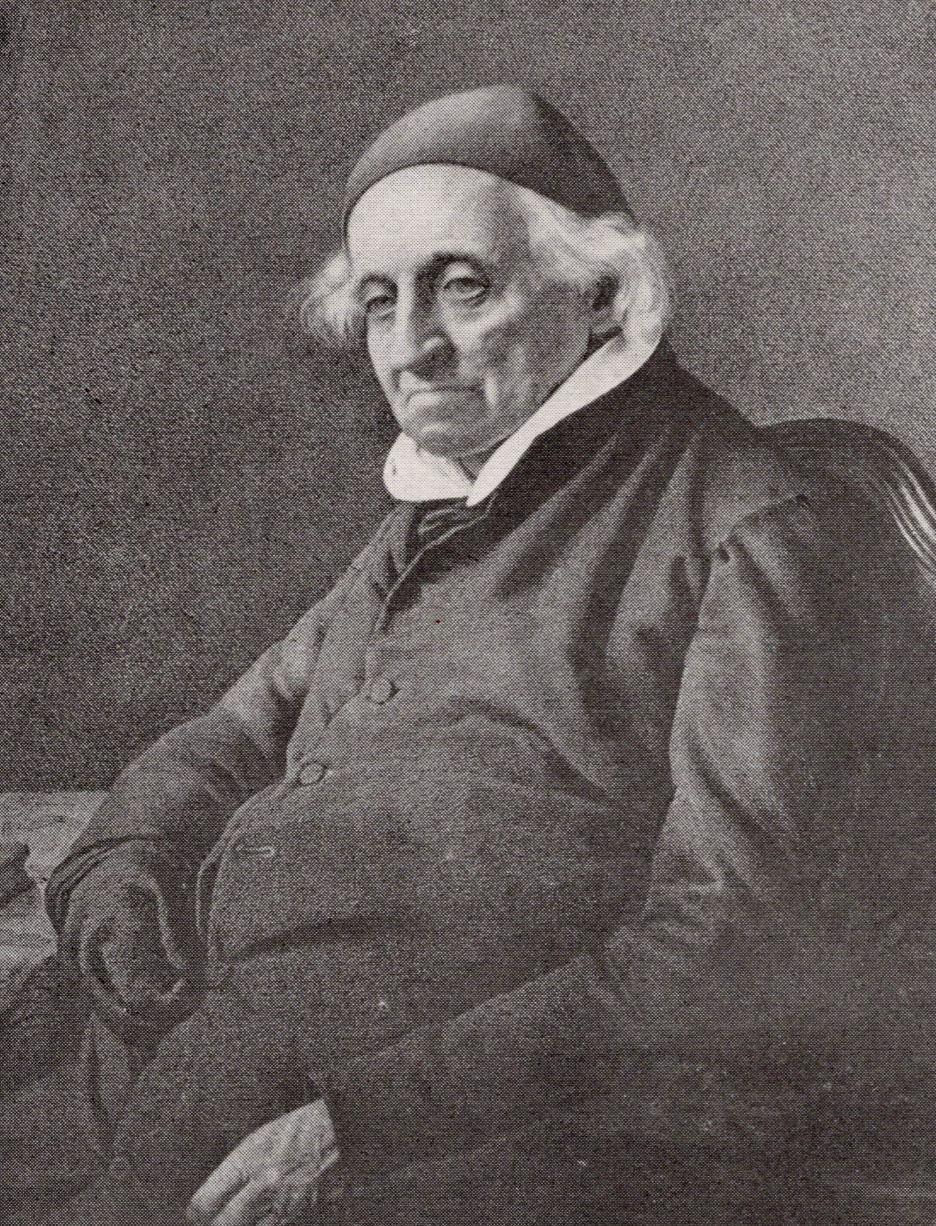 Information added by Wikimedia users. The first Priest ordained in the U. S., May 25th, 1793.